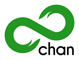 8chan